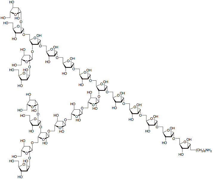 Dodosanasaccharide